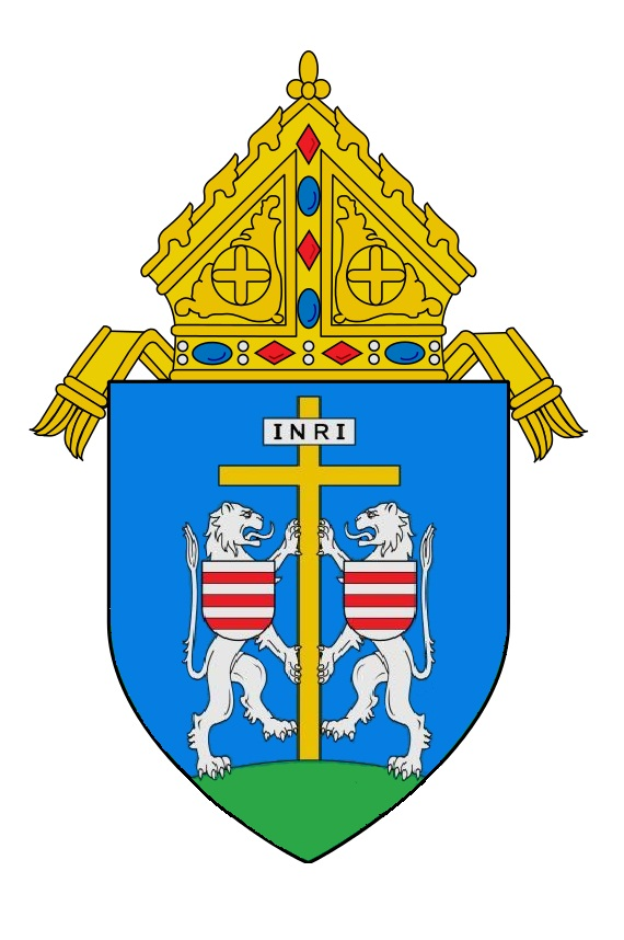 Representation of the Coat of Arms of the Archdiocese of Cebu.